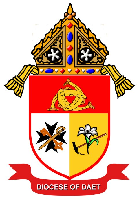 The new official logo of Diocese of Daet, Camarines Norte launched last September 1, 2011.